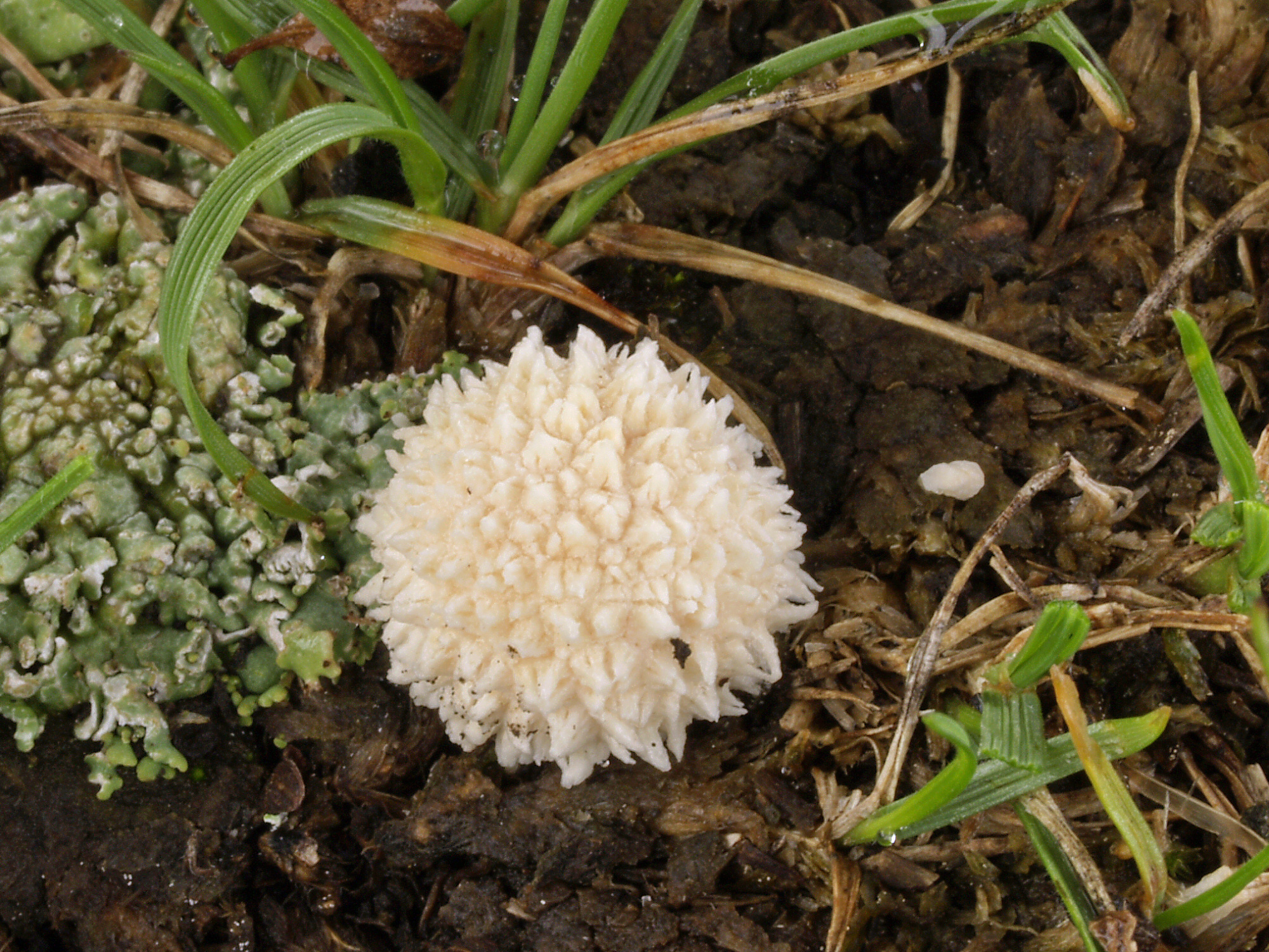 Meadow Puffball (Lycoperdon pratense)